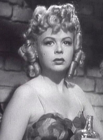 Cropped screenshot of Iris Adrian from the film Lady of Burlesque.